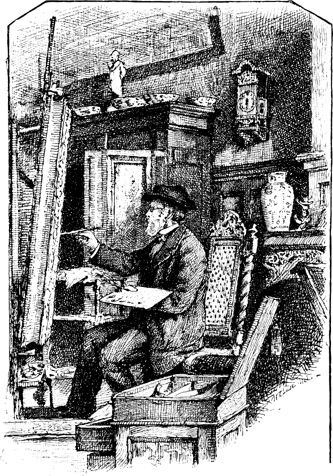 Dutch Painters at Home Israels at work